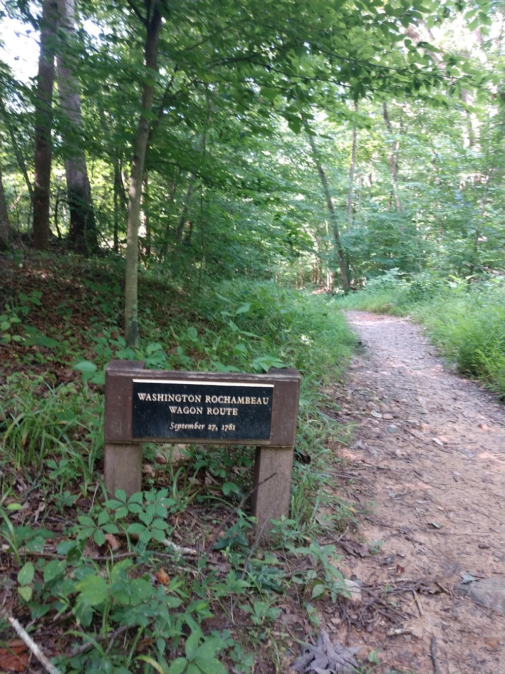 Photo of the Washington Rochambeau Route Wagon Road at Wolf Run Shoals on the Occoquan River near Clifton Virginia, July 2019.